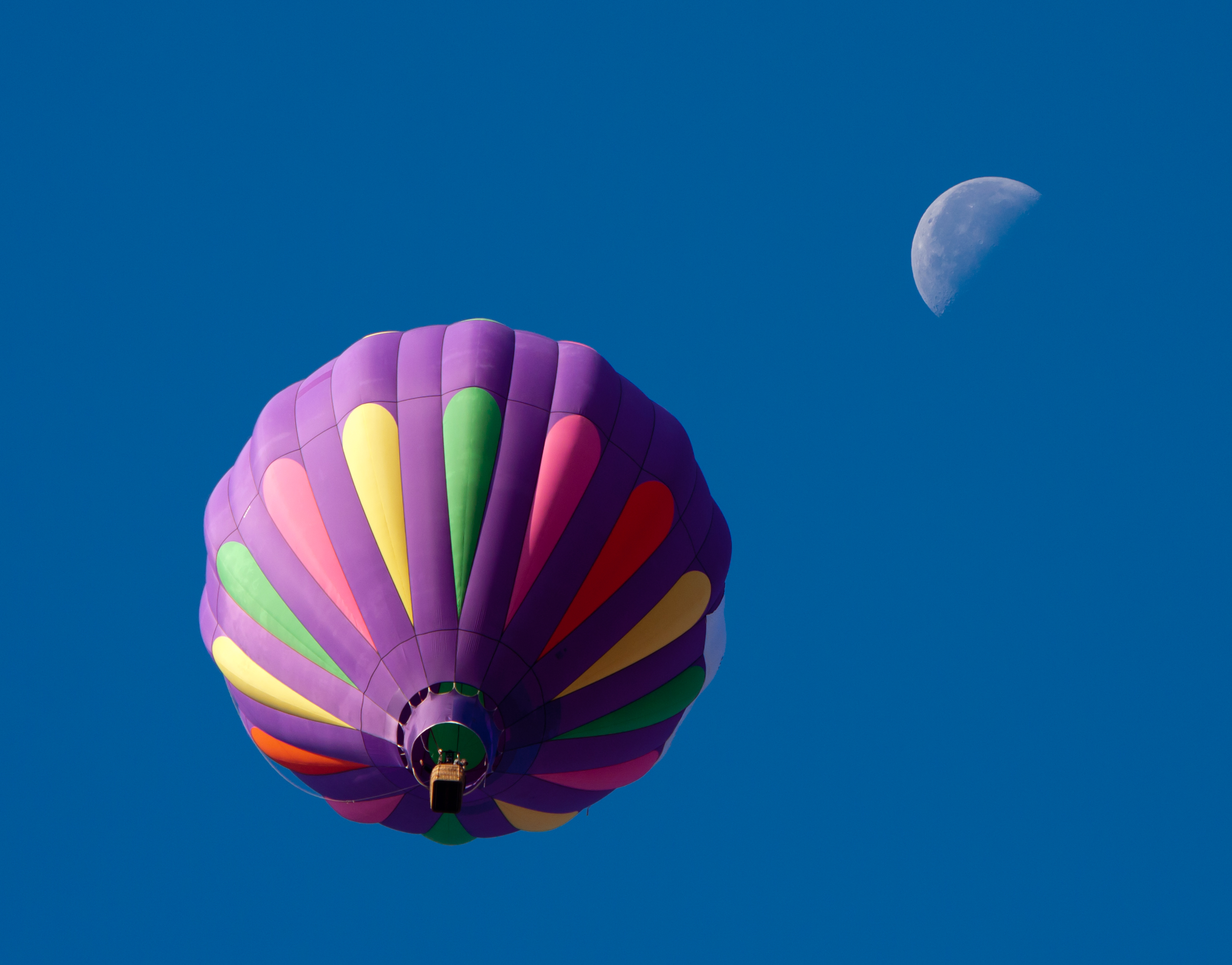 Hot air balloon and moon.